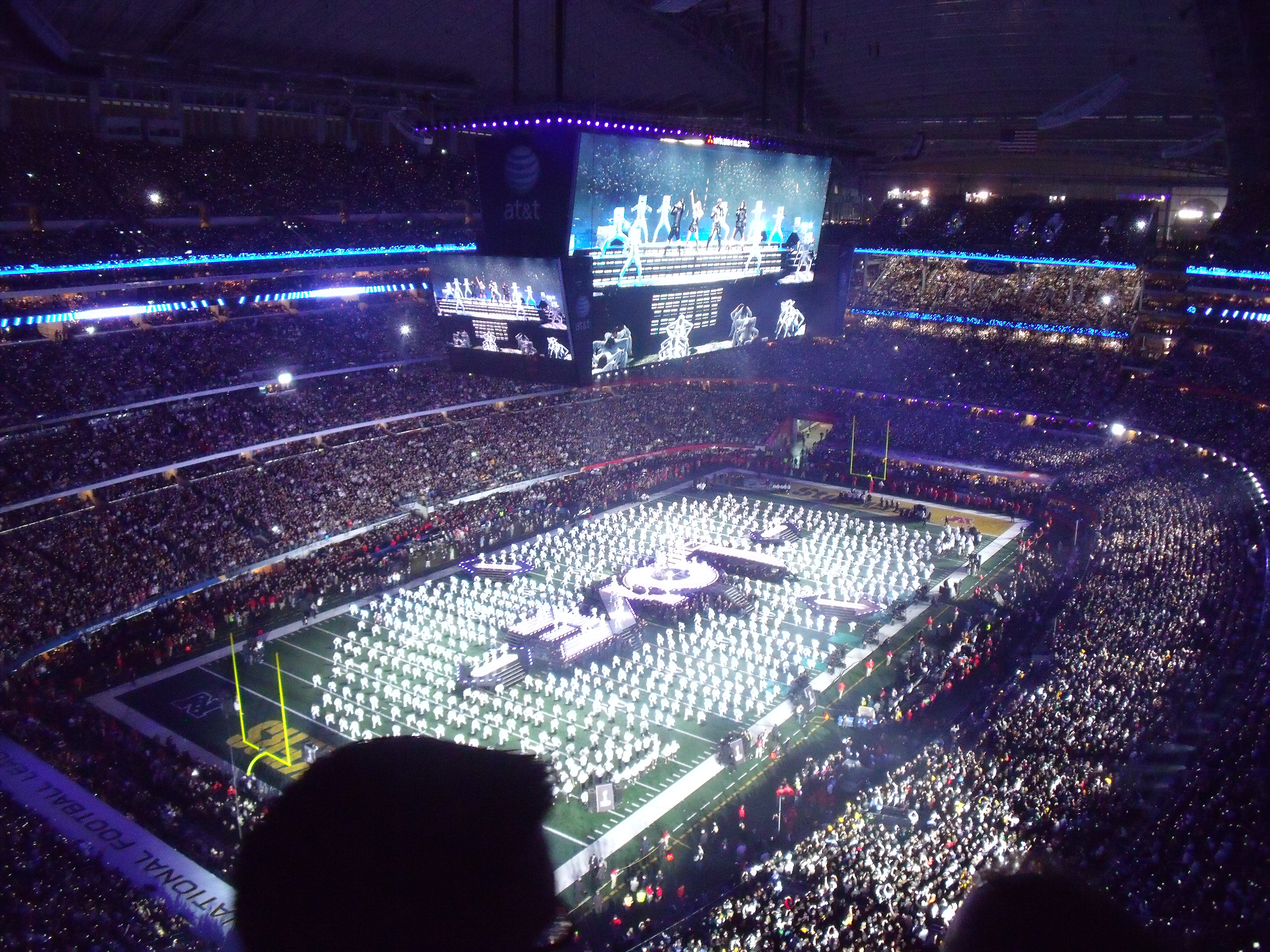 Black Eyed Peas performing "The Time (Dirty Bit)"